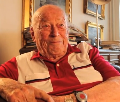 Finnish boxing expert Ilmo Lounasheimo.